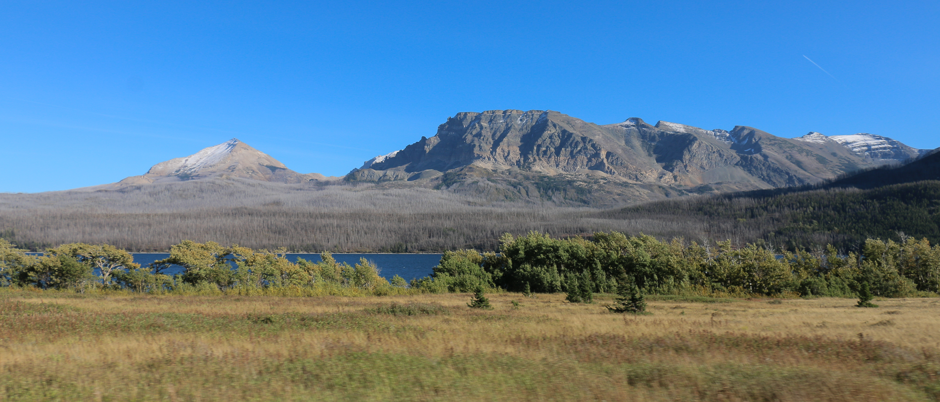 Divide Mountain, Curly Bear Mountain and Saint Mary Lake